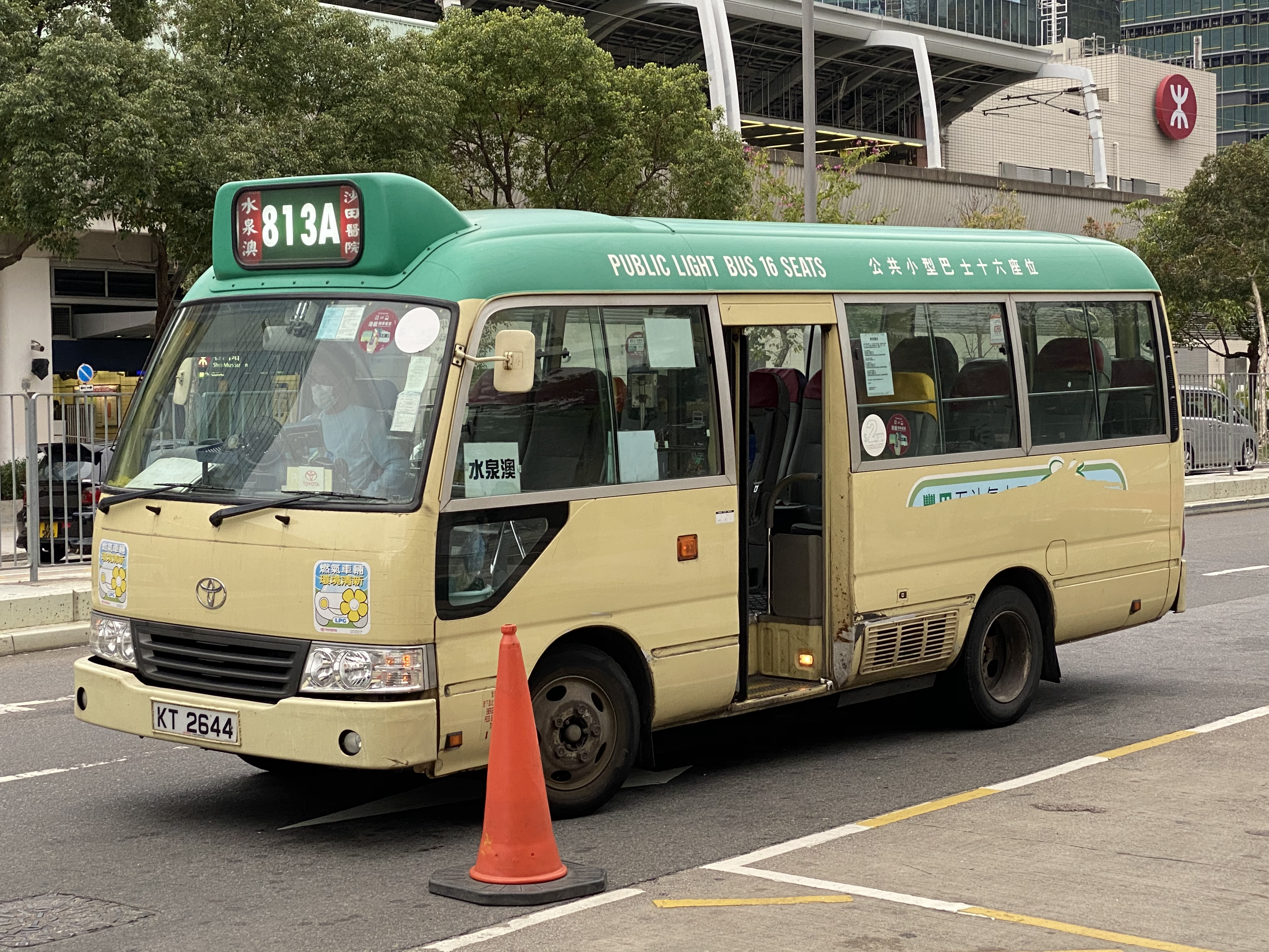 中文（香港）: This photo is taken in Shek Mun.